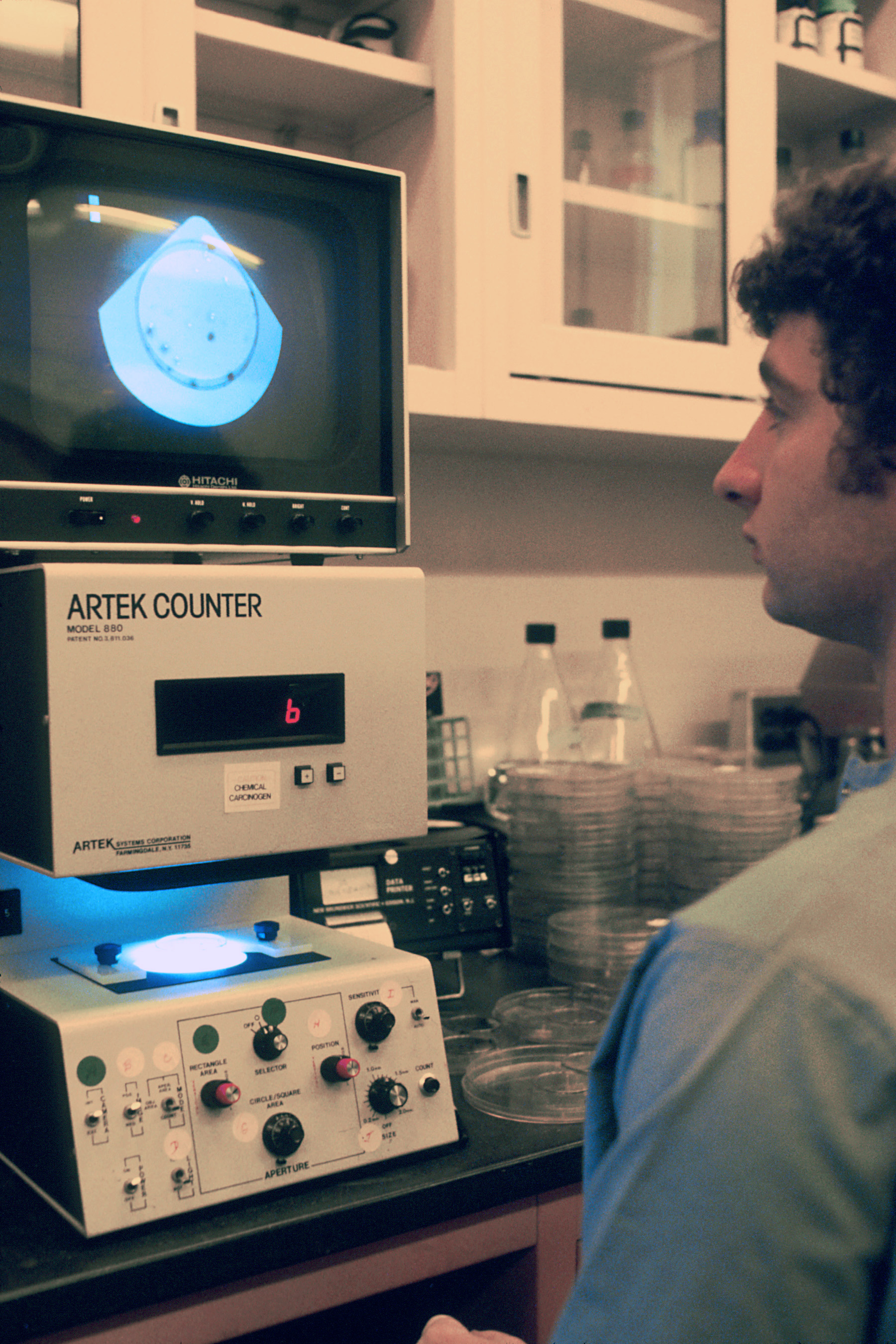 An ARTEK automated electronic colony counter